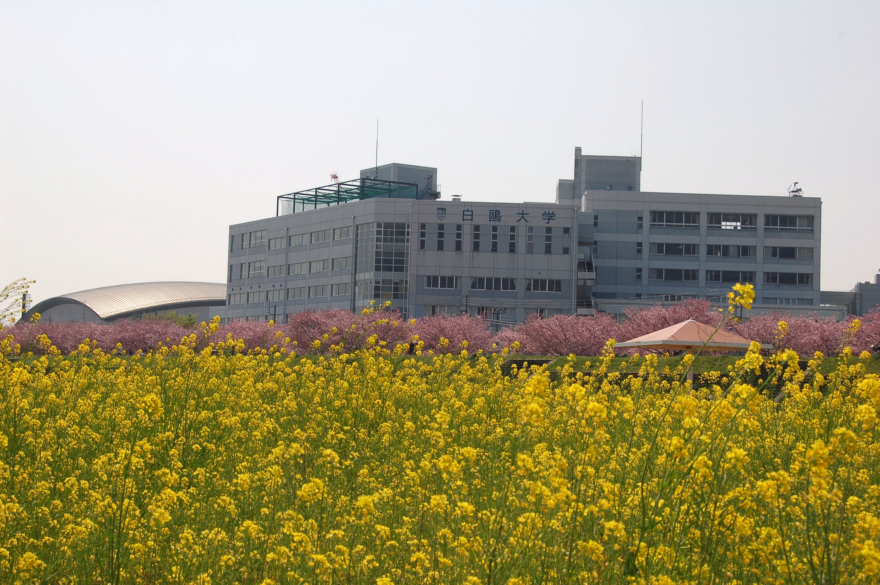 Hakuoh University,Oyama city,Tochigi,Japan